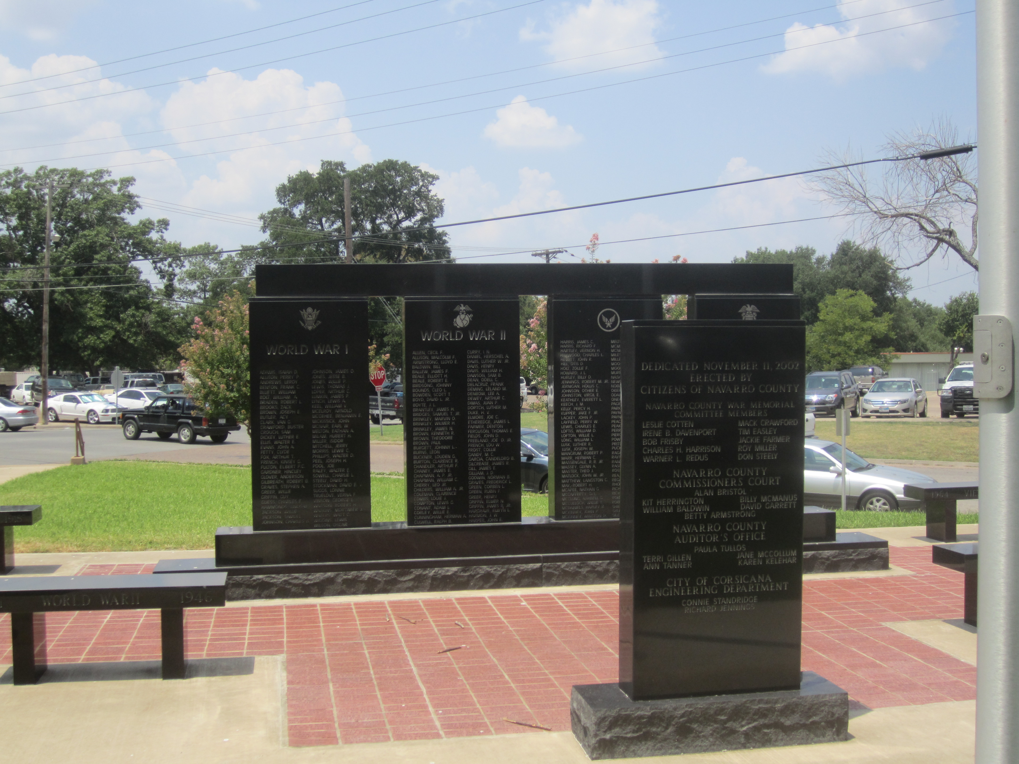 I took photo with Canon camera in Corsicana, TX.